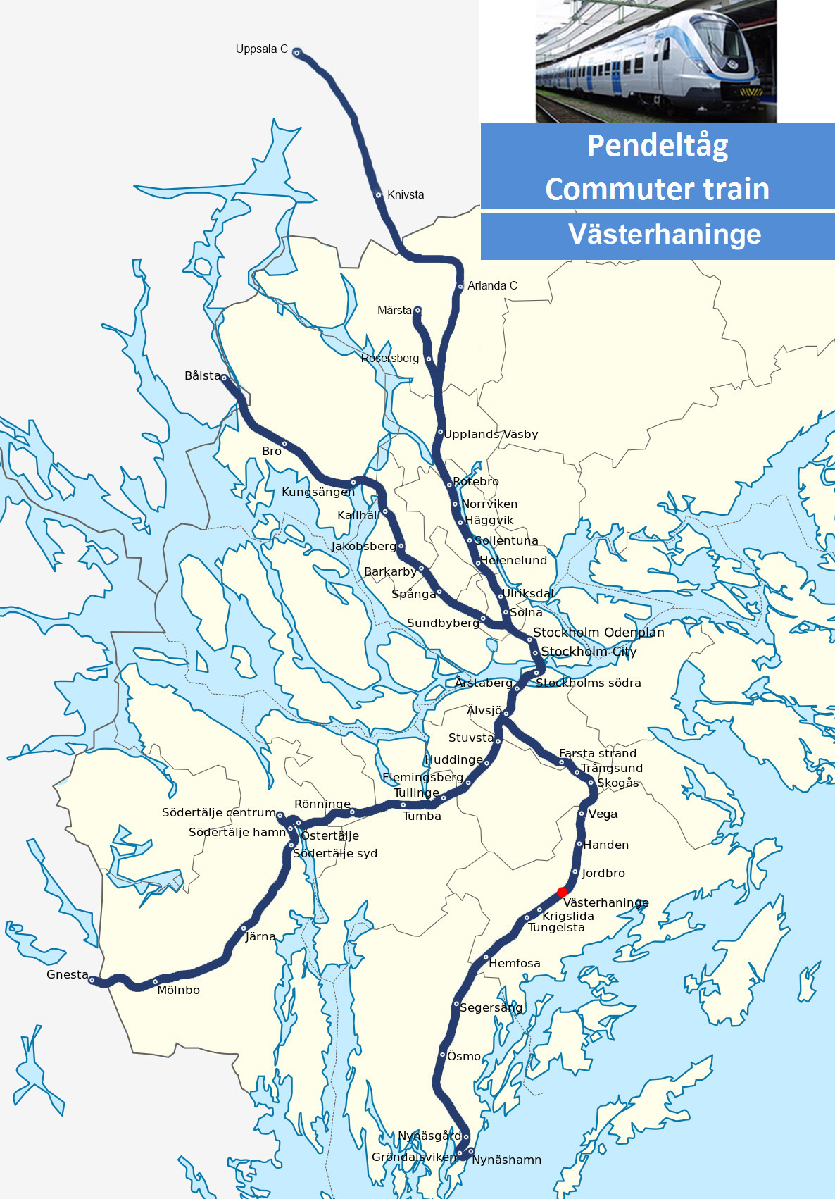 Västerhaninge station map